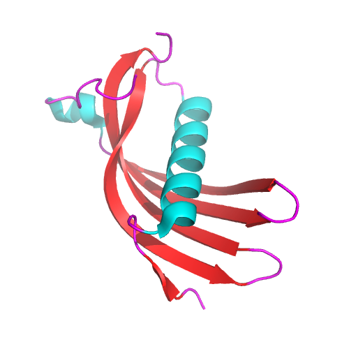 biologically active form of cystatin C